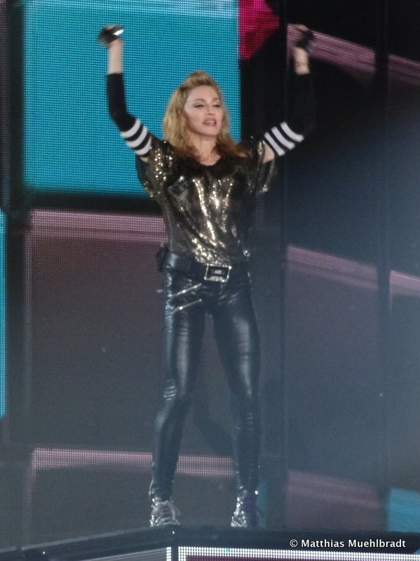 Madonna live at the o2 World, Berlin on 30 June 2012 during her MDNA Tour.